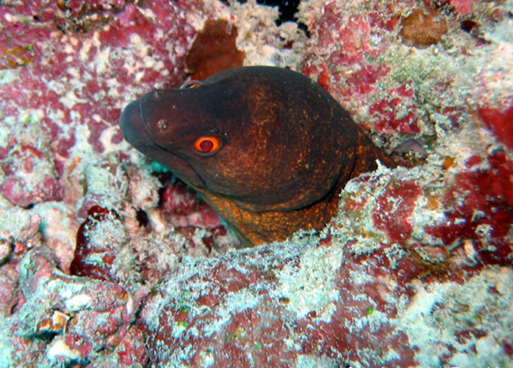 Gymnothorax flavimarginatus